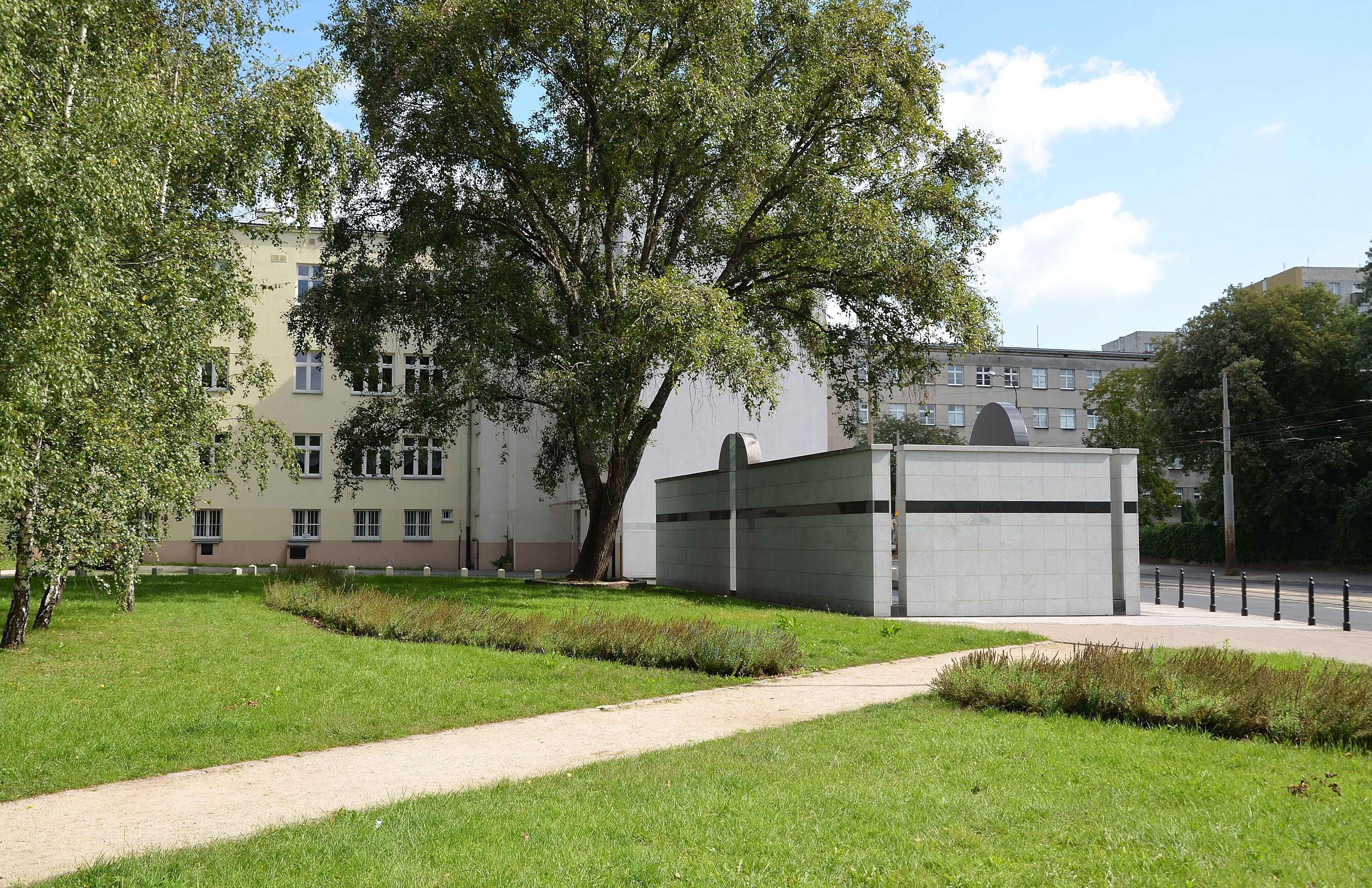 Umschlagplatz Monument in Warsaw viewed from Dzika Street